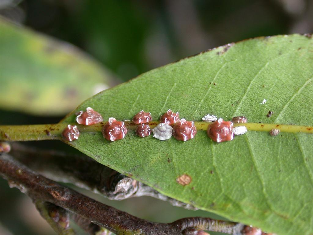 Name Ceroplastes rubens (Coccidae,Hemiptera,Insecta,Arthropoda) Host plant:Laurus nobilis Date:2005,10,09.Tanabe city,Wakayama prefecture,Japan Author:Keisotyo